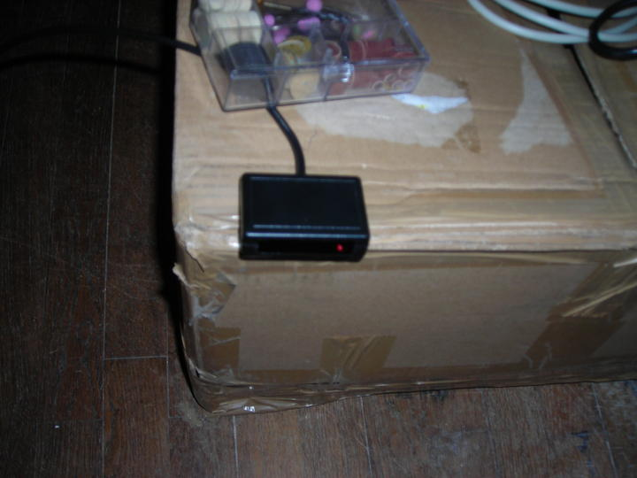 Universal infrared receiver and transmitter (USB-UIRT)